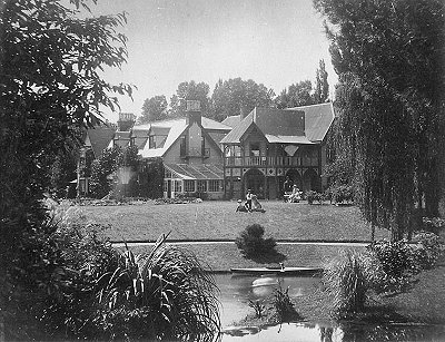 Known as the Ilam homestead, this huge house was built in 1858 by John Charles Watts Russell, J. P.